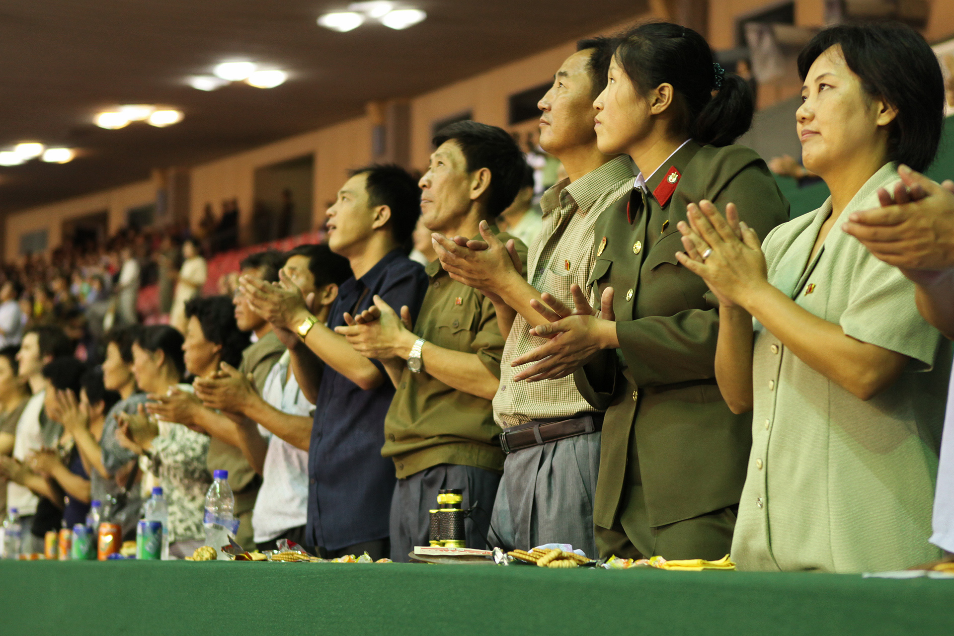 People looking at fireworks at the end of Arirang show.